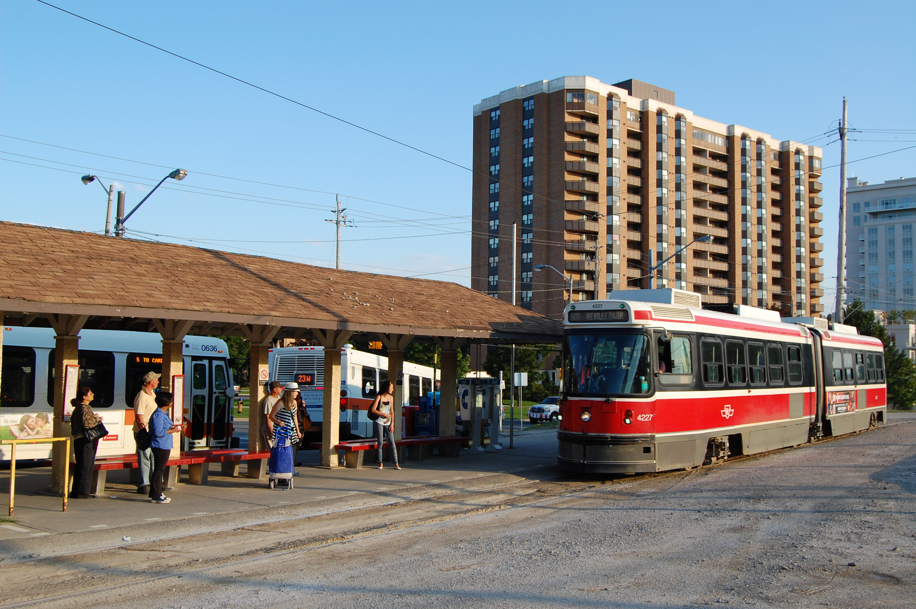 Long Branch Loop in August 2011